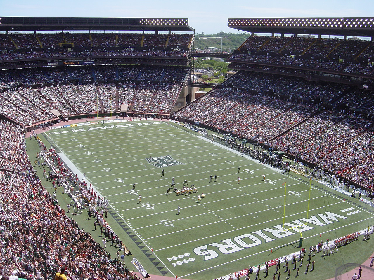 Aloha Stadium: USC @ Hawaii. Photo taken by Bobak Ha'Eri. September 3, 2005. Please observe license and properly cite in use outside Wikipedia.